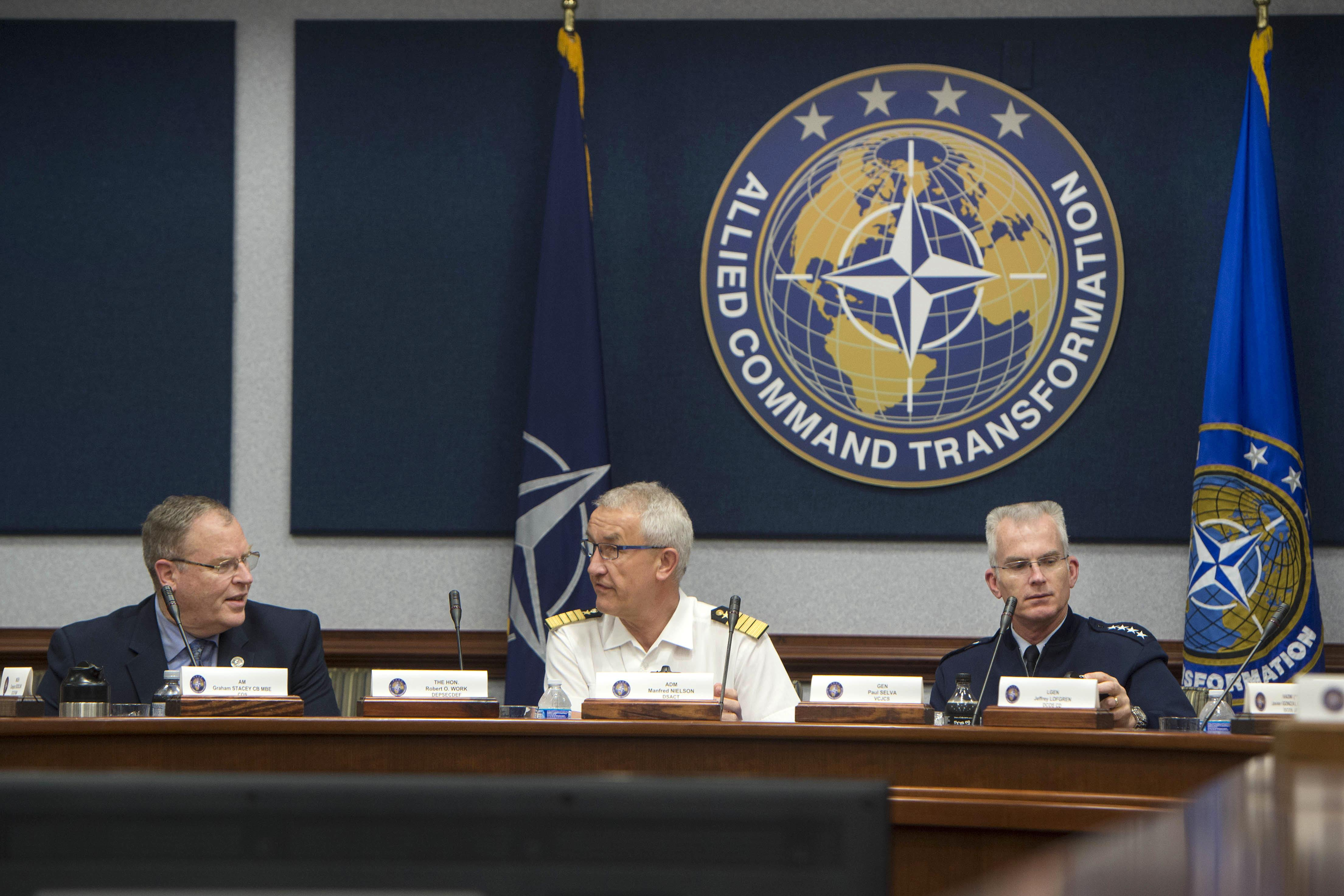 Deputy Defense Secretary Bob Work, left, German navy Admiral Manfred Nielson, Deputy Supreme Allied Commander Transformation, center, and Air Force Gen. Paul J. Selva, vice chairman of the Joint Chiefs of Staff, meet with senior leaders at NATO Supreme Allied Command Transformation in Norfolk, Va., June 16, 2016. DoD photo by Navy Petty Officer 1st Class Tim D. Godbee